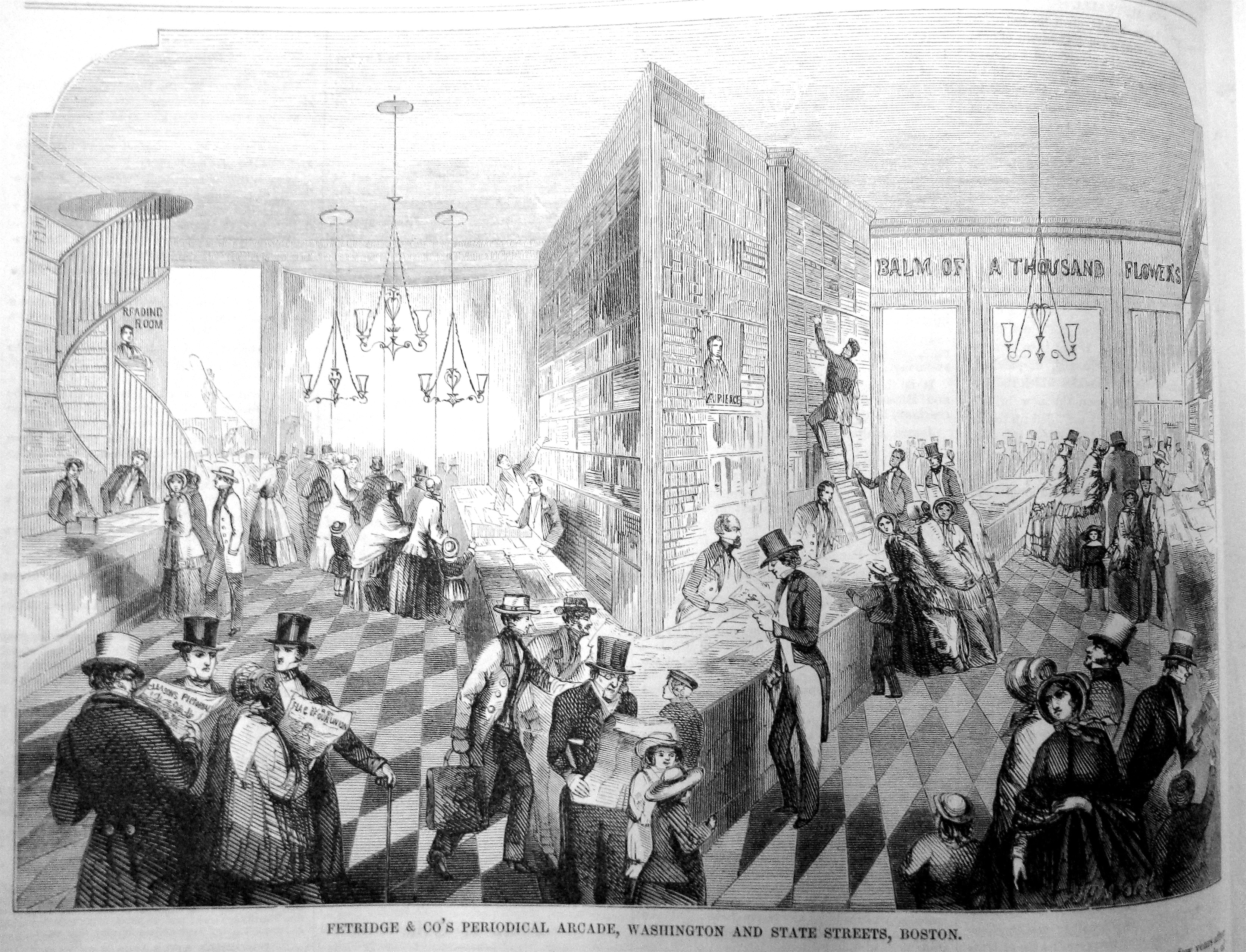 Fetridge & Co. Periodical Arcade, Boston MA, in: Gleason's Pictorial 1852